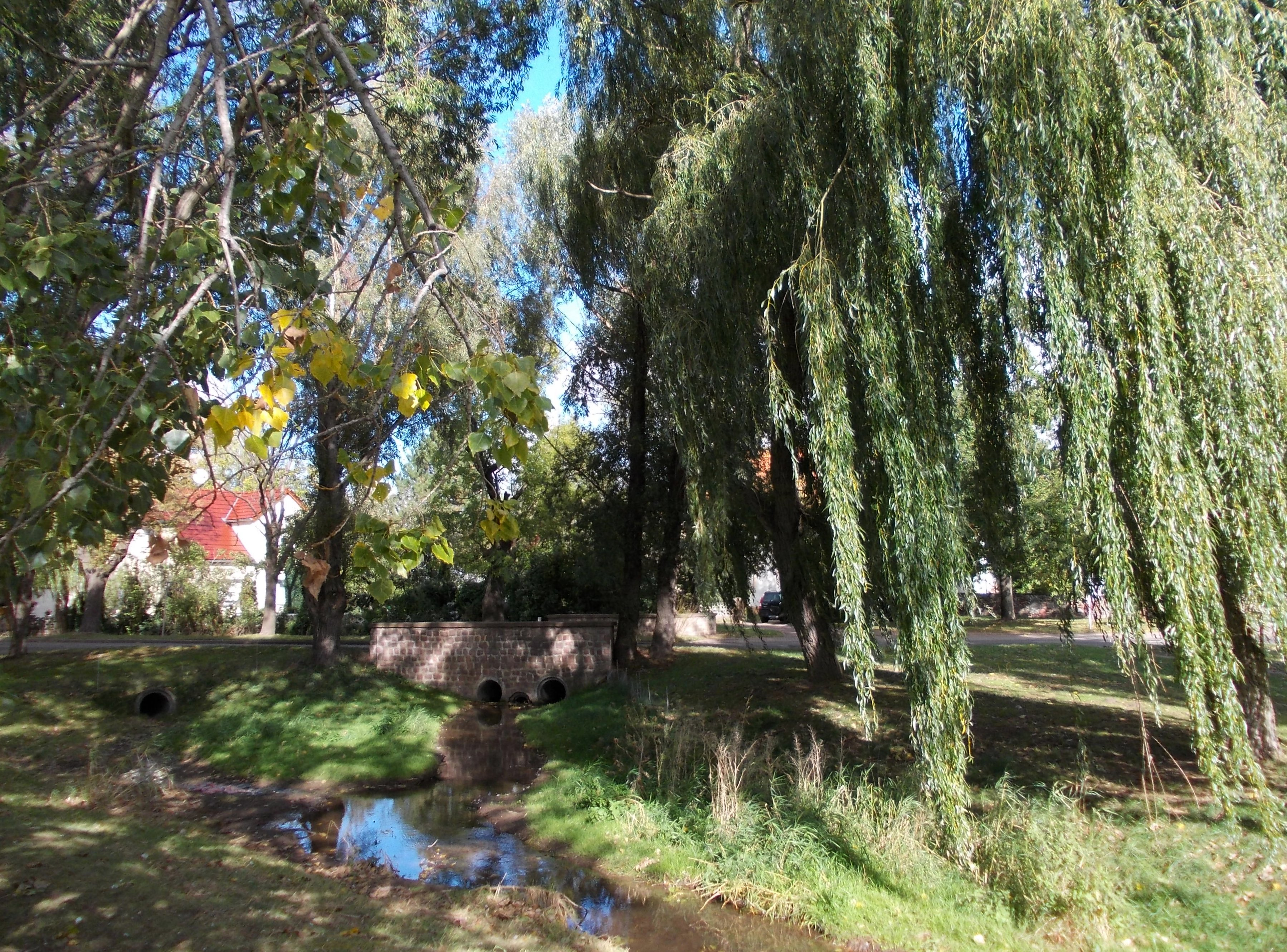 Plötze stream in Kirchedlau (Könnern, district of Salzlandkreis, Saxony-Anhalt)